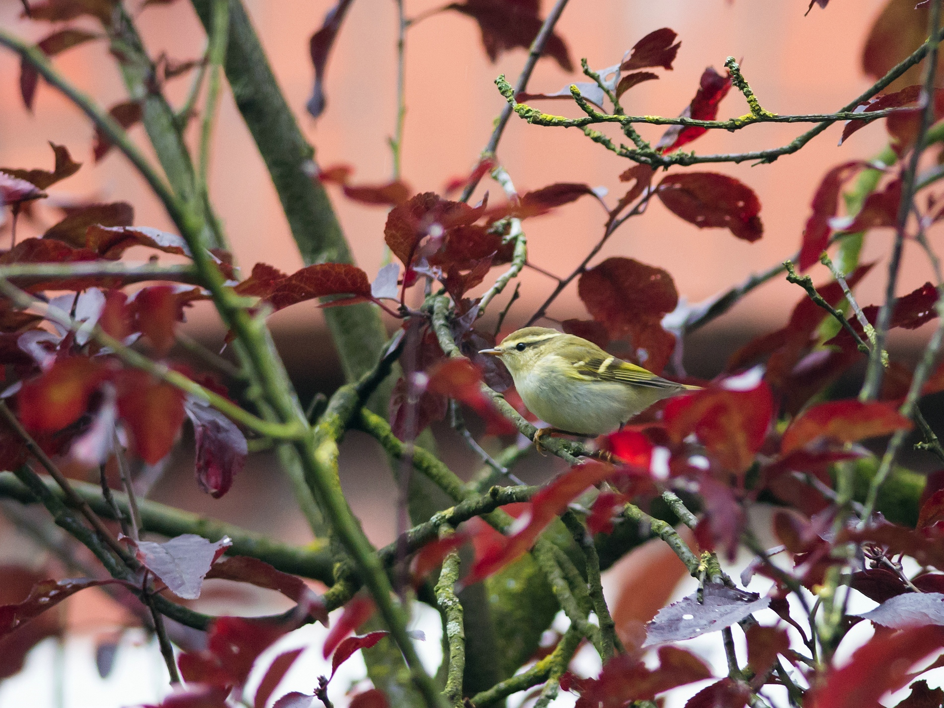 Phylloscopus inornatus, Velp, Guelders, Netherlands